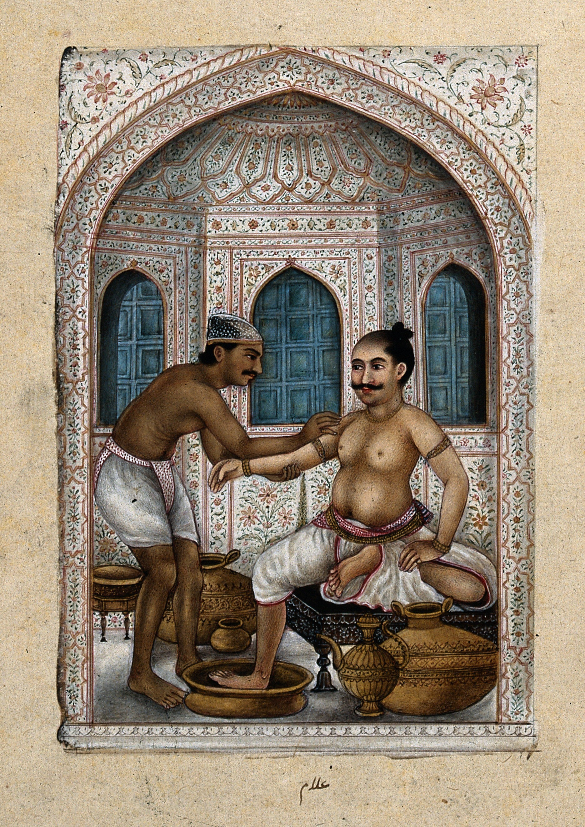 A ghulum, or bath attendant of the Shudra caste, attending to a customer in a Mughal inspired bath- house. The ghulam is providing snehana and svedana, two Ayurvedic procedures, to his customer. Snehana includes external oil massage that nourishes the nervous system, while svedana is the applying of hot steam to flush out the toxins from the body. Iconographic Collections Keywords: Bathing; Ayurvedic medicine; Masseuse; India; Cleanse; Massage